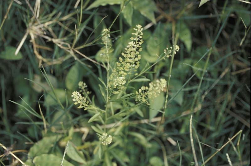 BRASSICACEAE, LEPIDIUM AFRICANUM (Burm.f.) DC., 2_par_Lucile